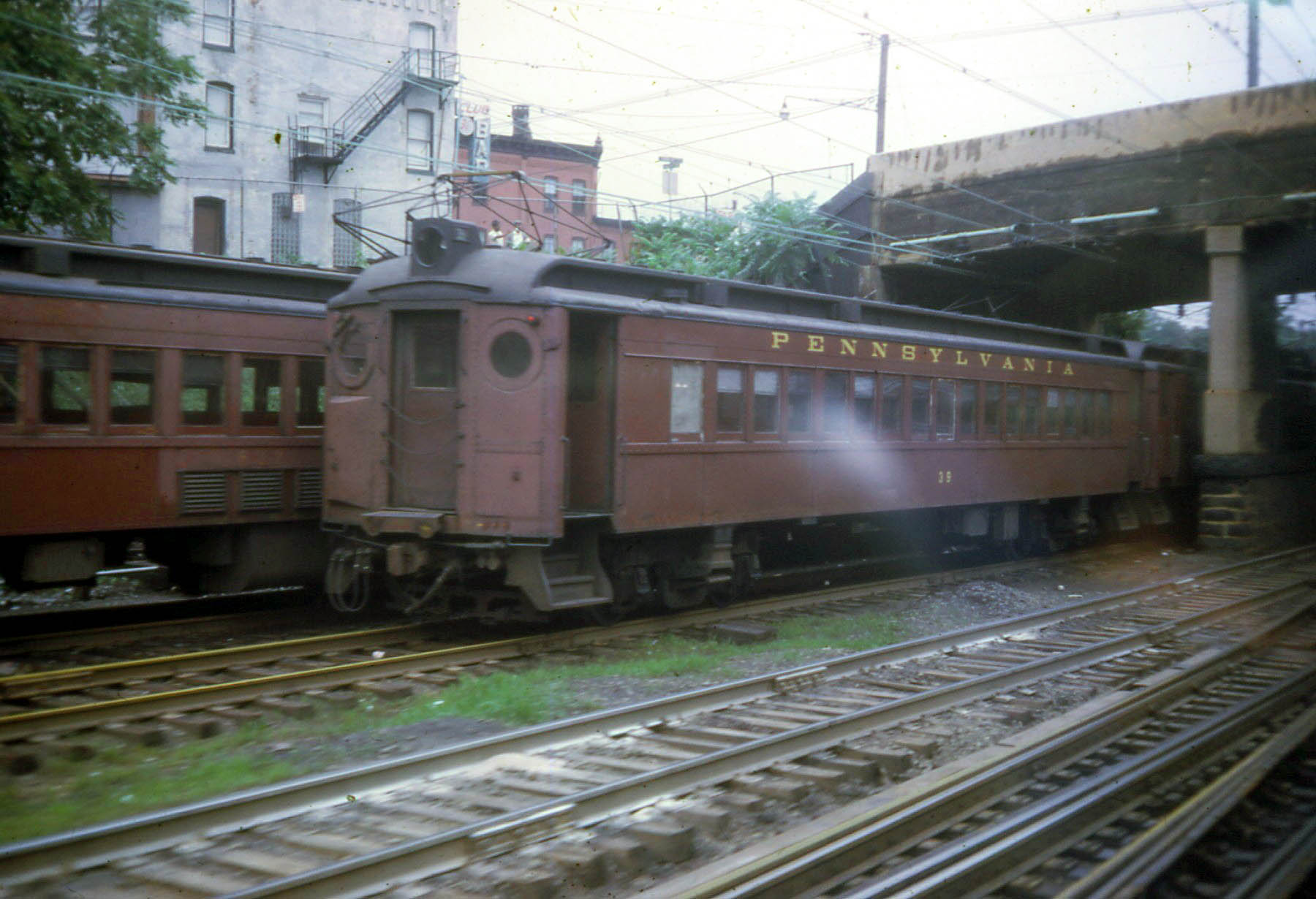 PRR MP54 trailer at an unknown location in New Jersey in June 1967